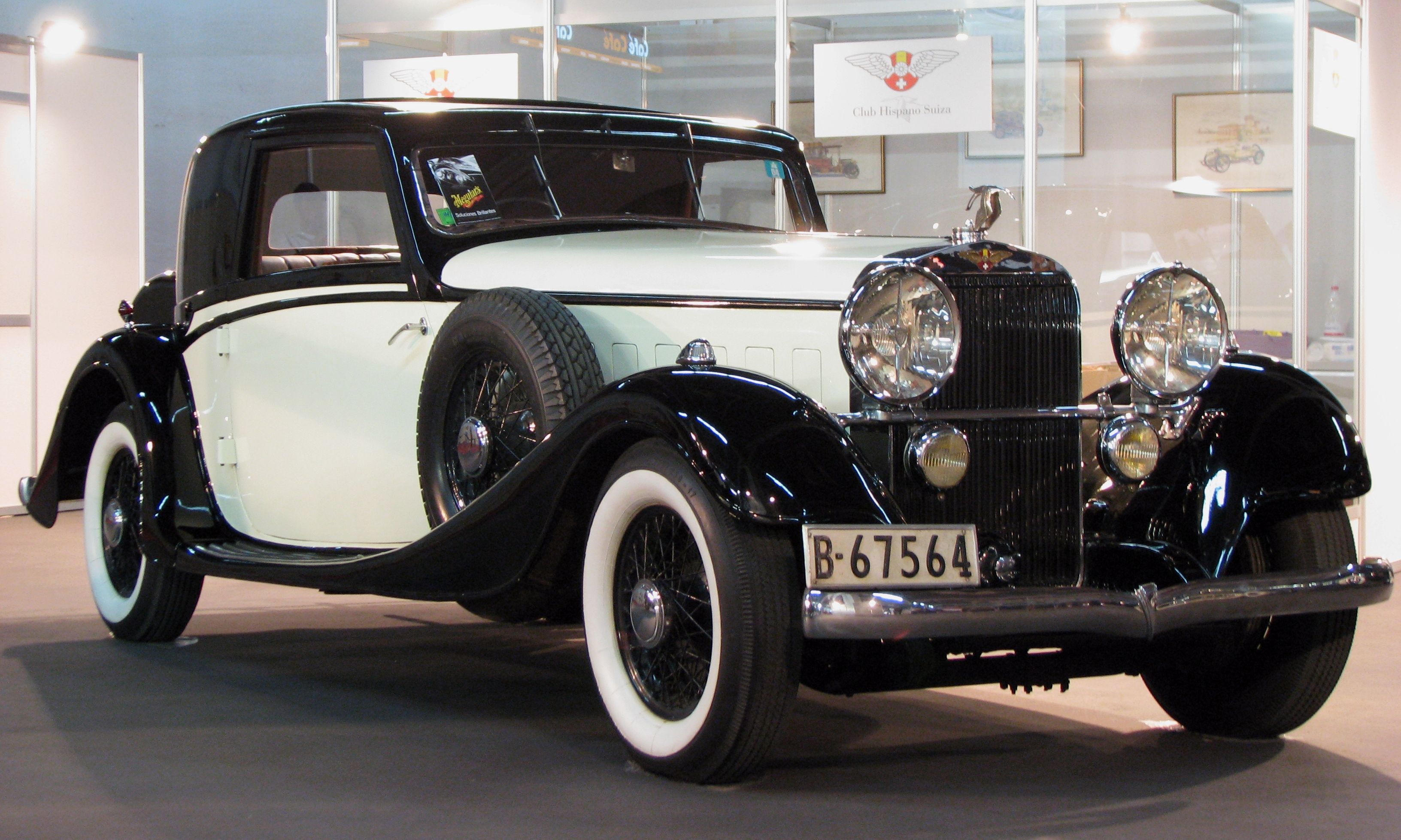 Hispano-Suiza K6 at 2009 Barcelona motorshow edition